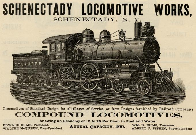 This is an advertisement for the Schenectady Locomotive Works from an 1893 issue of The American Engineer and Railroad Journal. The locomotive pictured is labeled N.Y.C. & H.R.R.R. 897.